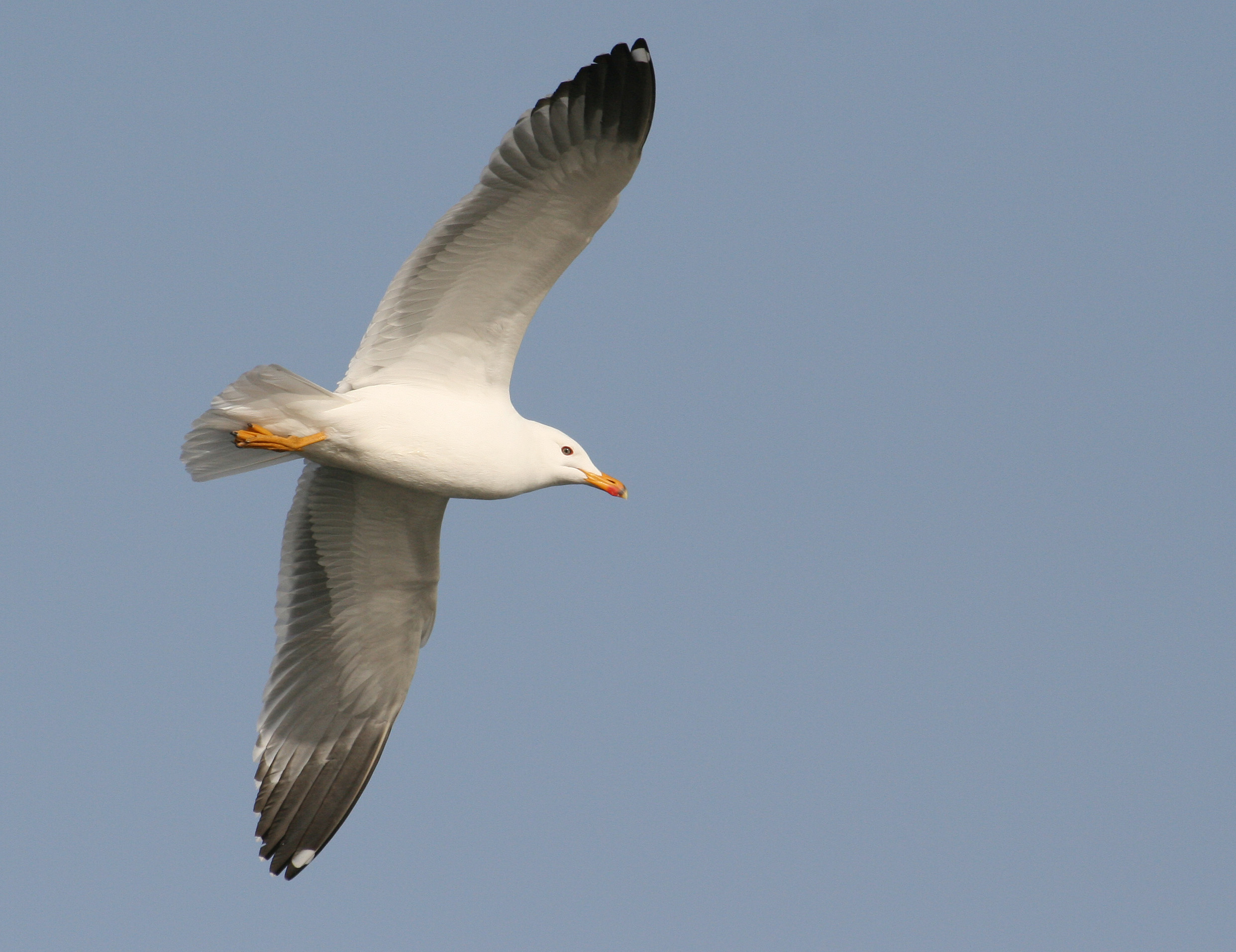 Armenian Gull in flight, near Sevan lake